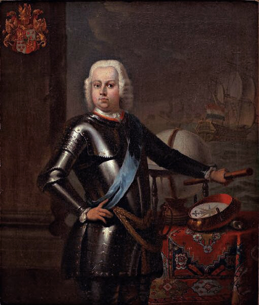 Ernst des H.R.Rijksbaron de Petersen (?-1762) oil on canvas 62,5 x 53 cm 1730 - 1740